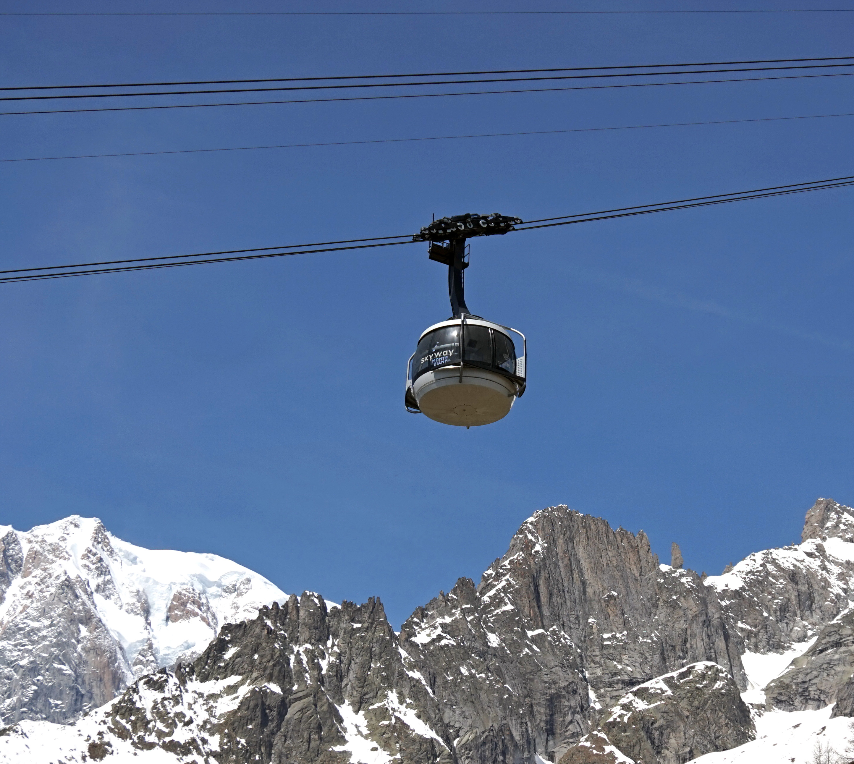 skyway Monte Bianco This photograph was taken with a Sony Alpha a5000.